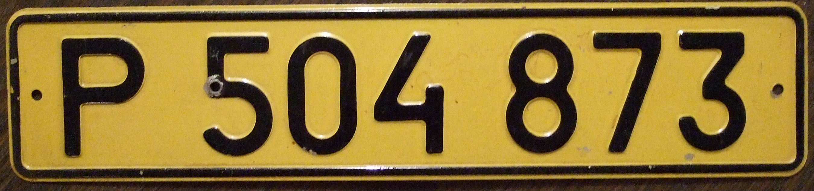 Issued to vehicles exported from the Soviet Union.